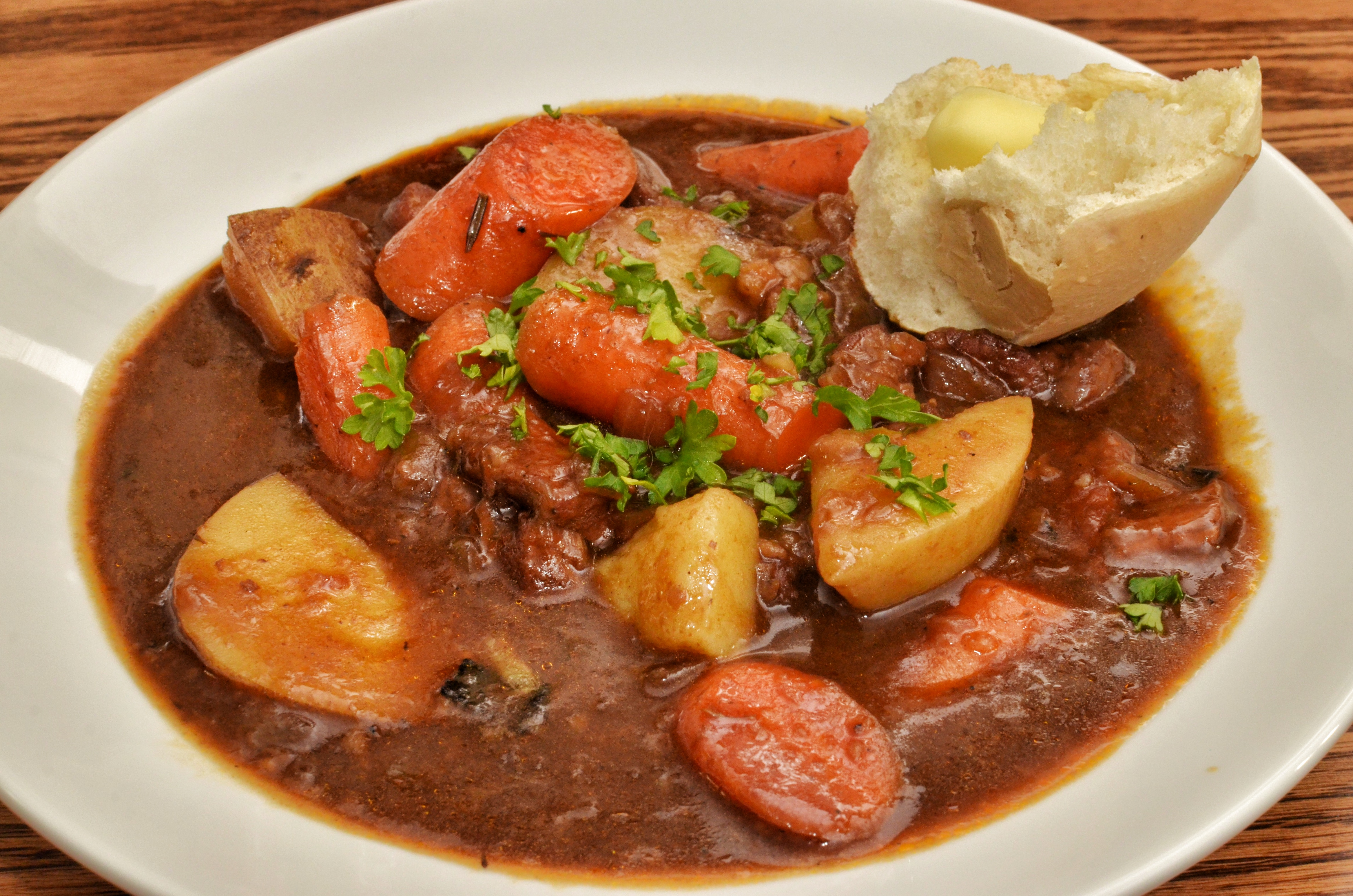 Mmm... Irish stew